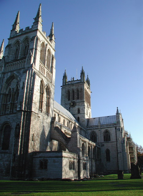 Selby Abbey